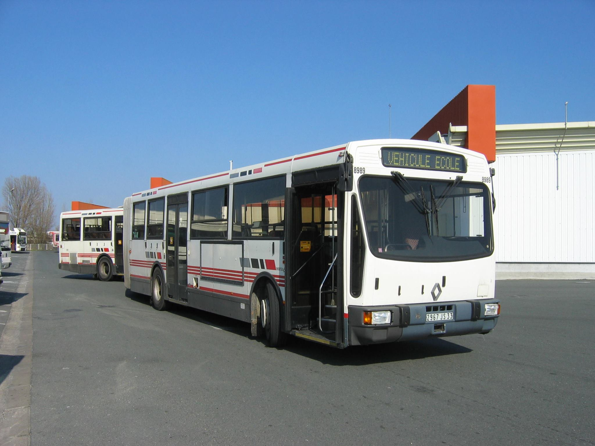 A Renault Mégabus (n°8989 of the CGFTE) parked at the Dépôt du lac (Bordeaux, France) on February 27, 2006, the day of its receipt by the AMTUIR.